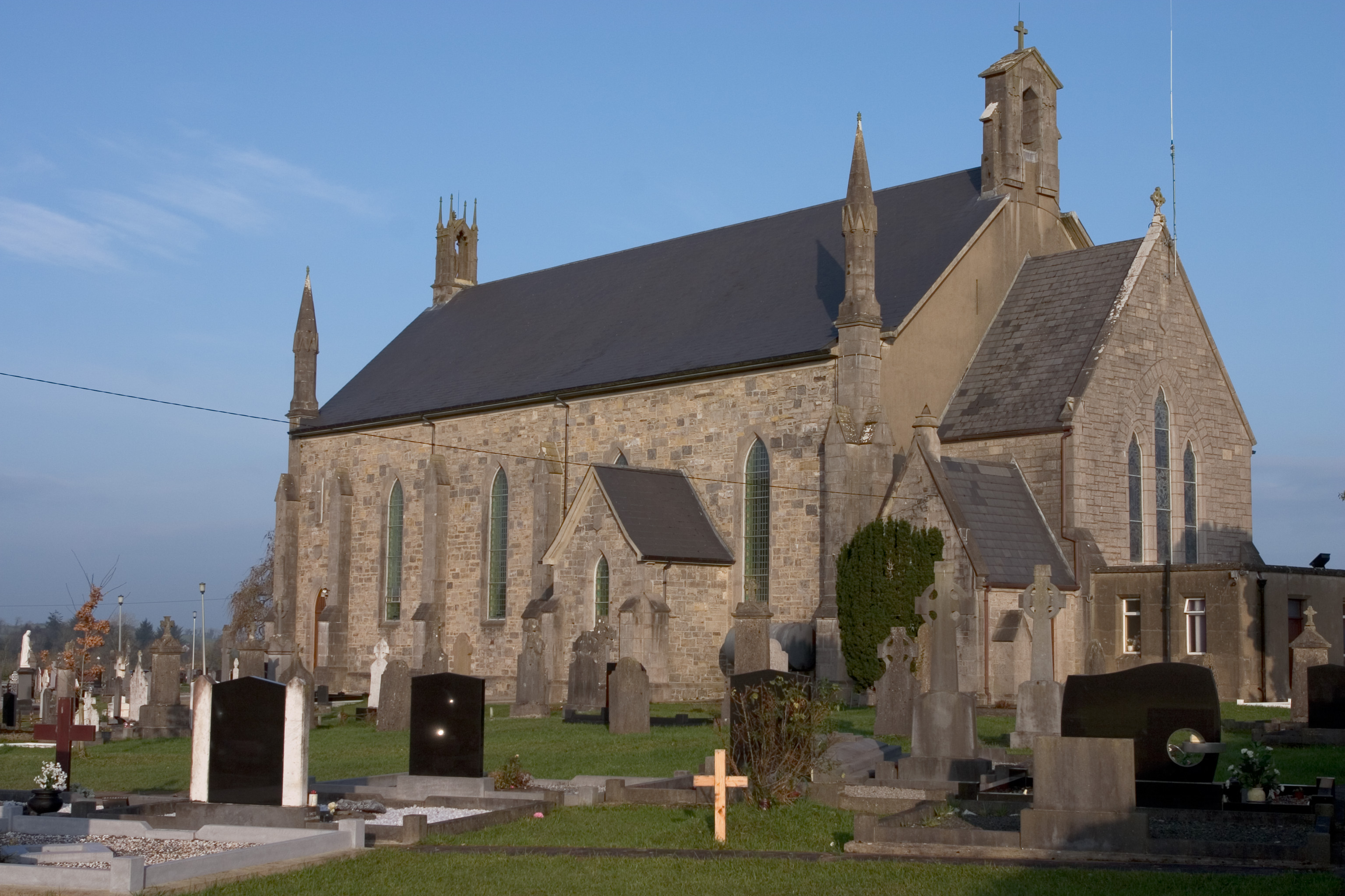 Staghall church, Belturbet, County Cavan, Ireland.